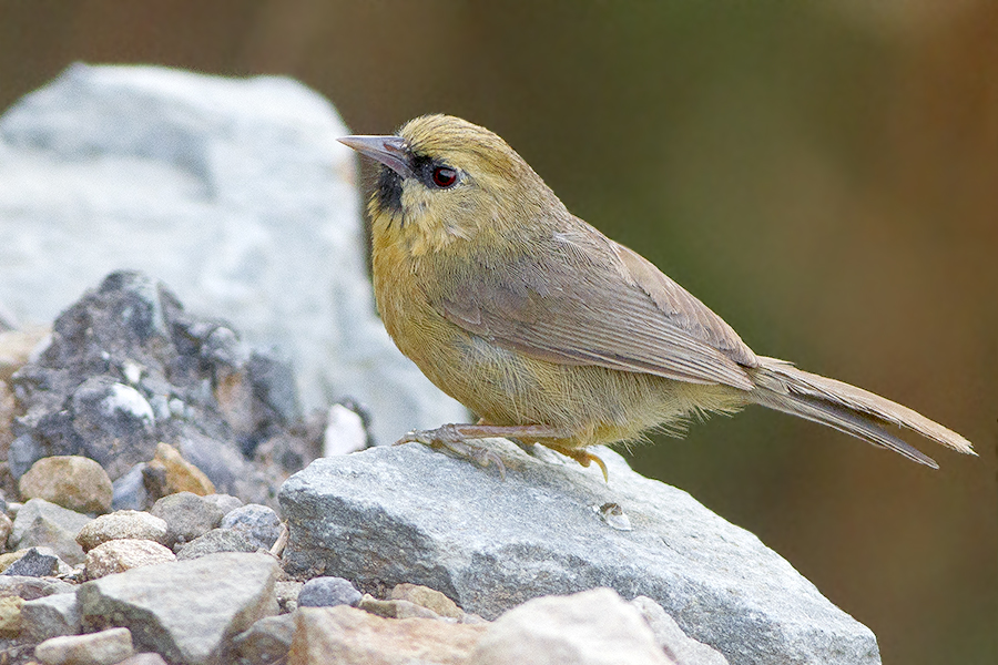 The species Black-chinned Babbler had been photographed from Naina Devi Himalayan Bird Conservation Reserve in Uttarakhand, India on 26.05.2016.